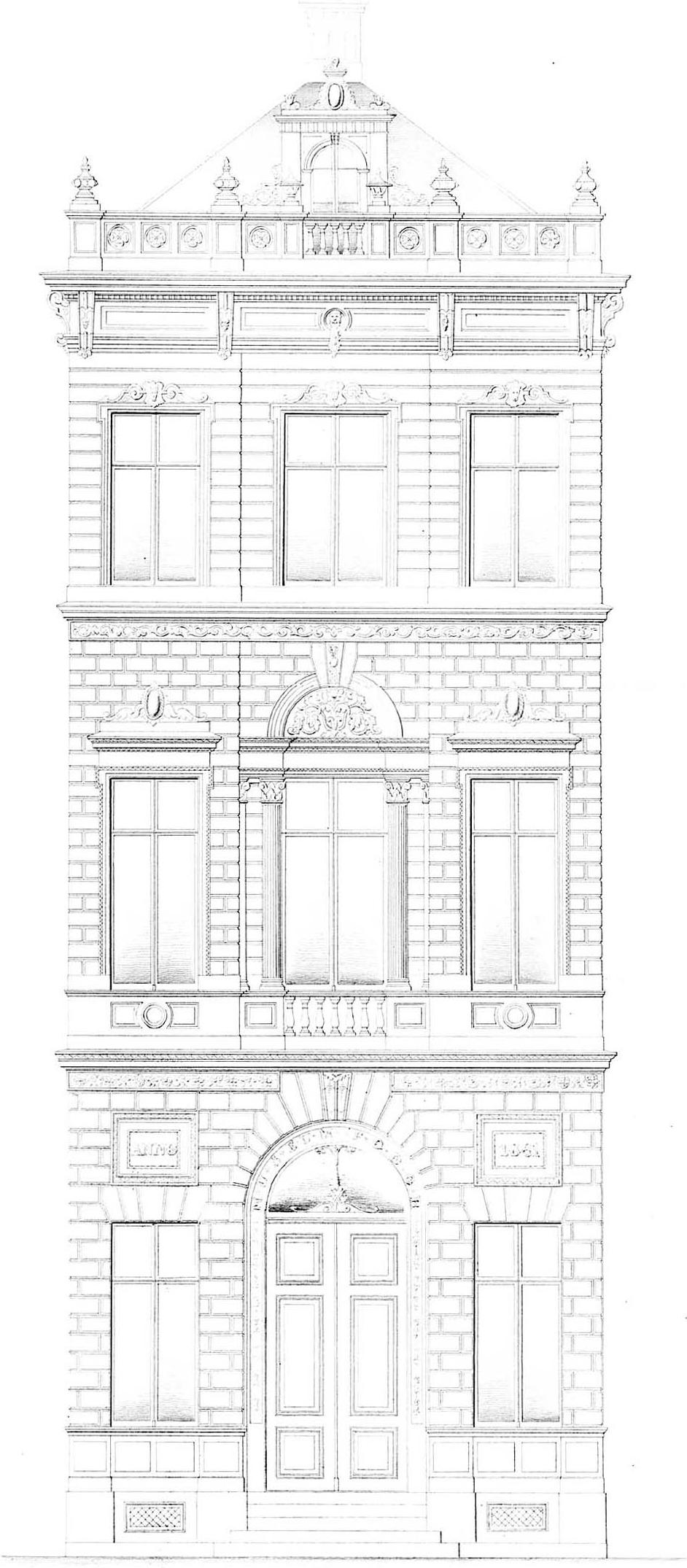 Museum Fodor (now Fotografiemuseum Amsterdam), Keizersgracht 609, Amsterdam, front elevation. 1861-1863.